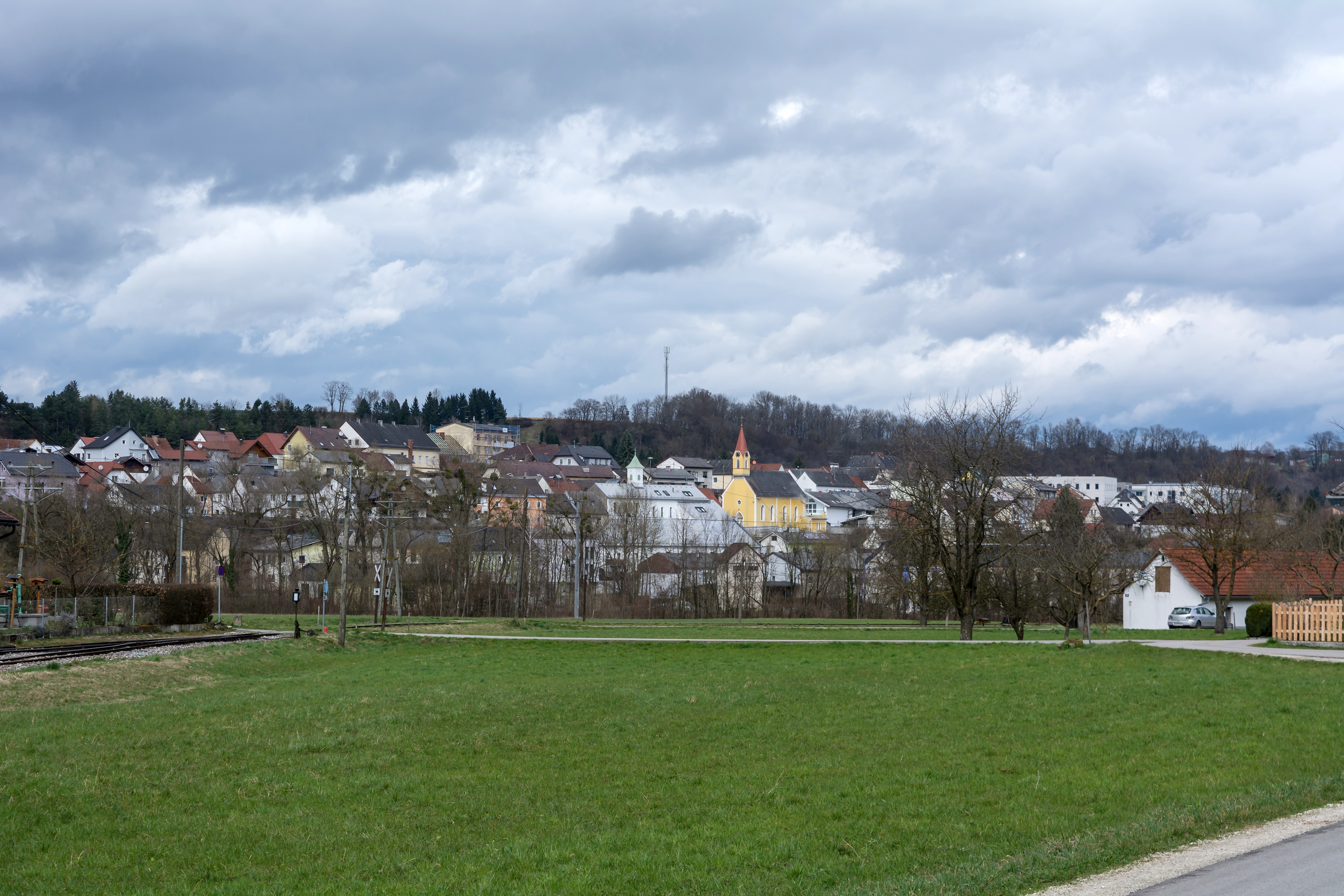 Neuzeug is part of the municipality of Sierning in Upper Austria.